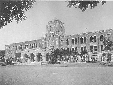 Taiwan High Court under Japanese rule